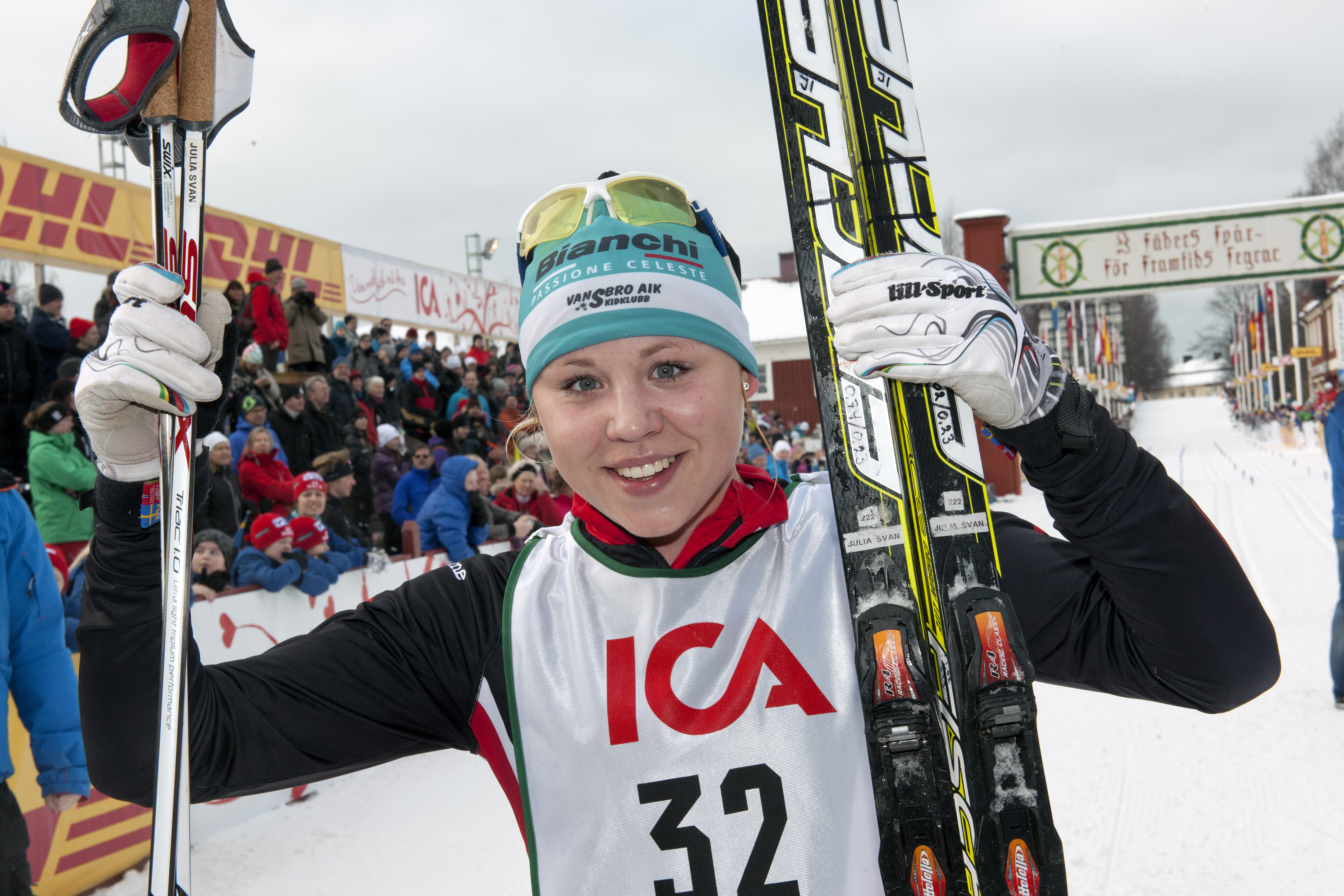 Julia Svan firar sin tredje plats i TjejVasan 2013.